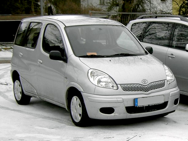 Toyota Yaris Verso